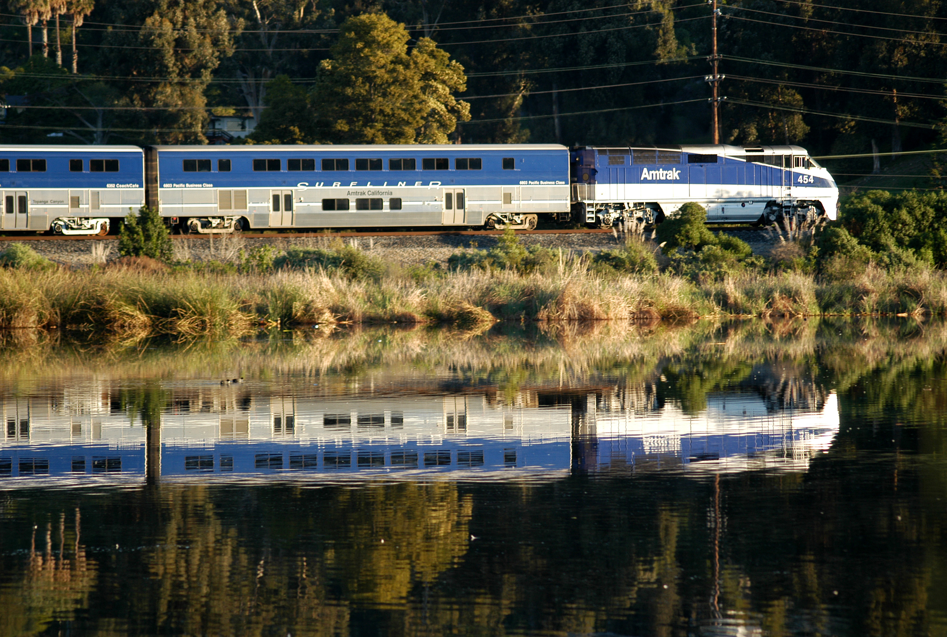 A Pacific Surfliner in Santa Barbara in March 2017